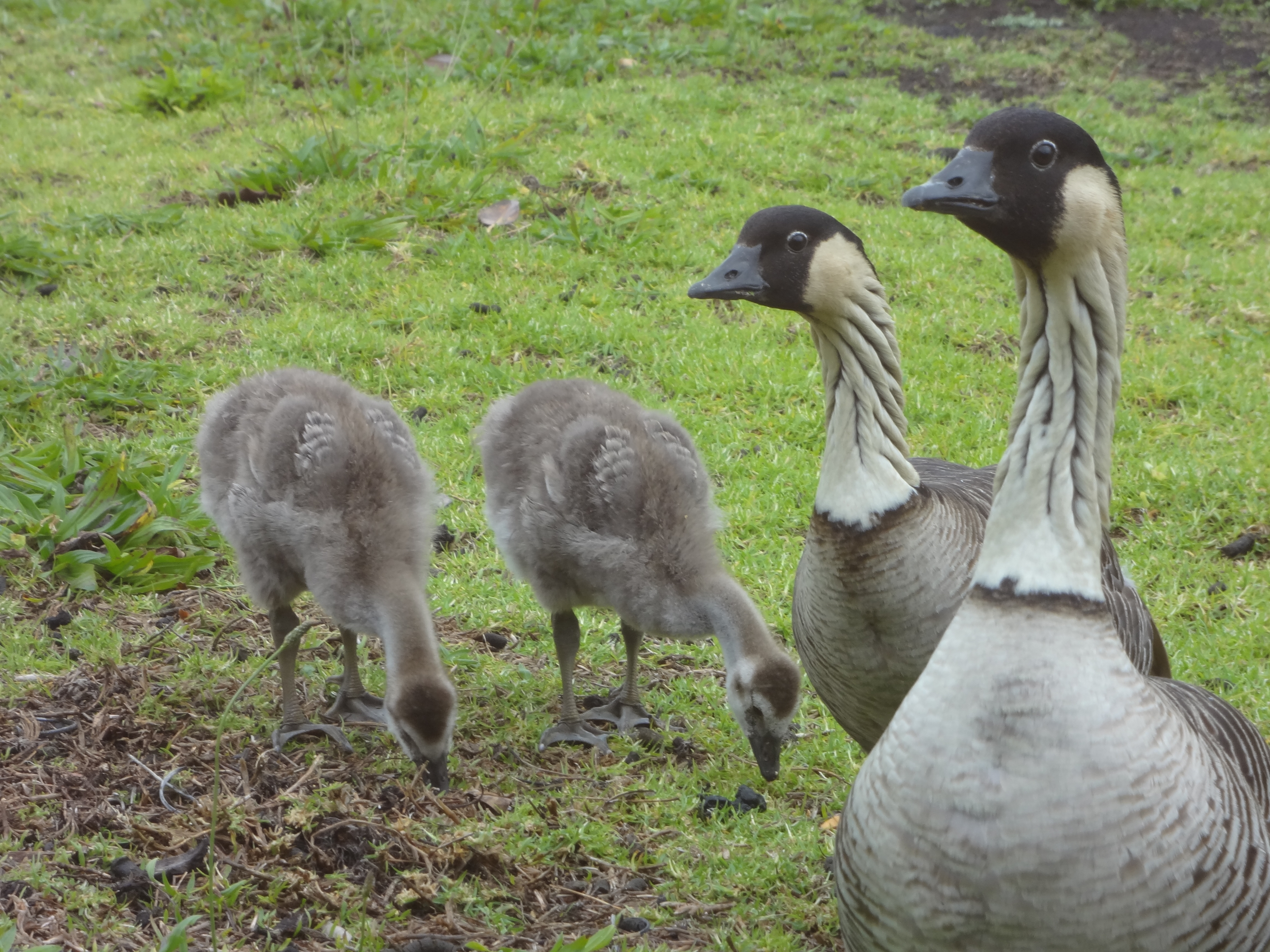 Two Branta sandvicensis and their goslings.